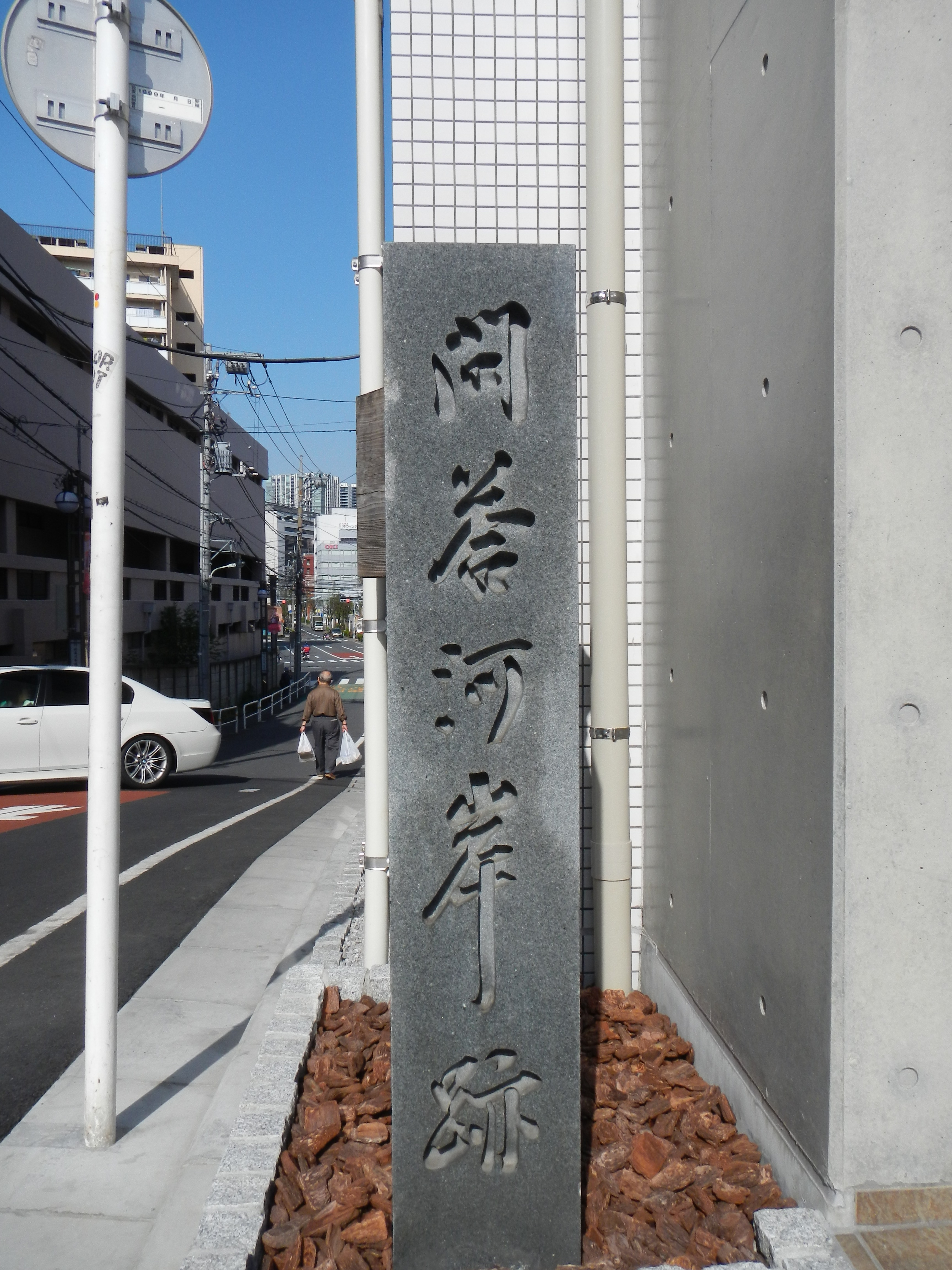 Monument of dialogue between Takuan and Tokugawa Iemitsu at Shinagawa, Tokyo